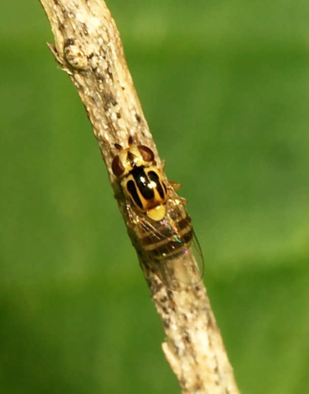 Thaumatomyia notata from Cologne, Germany.